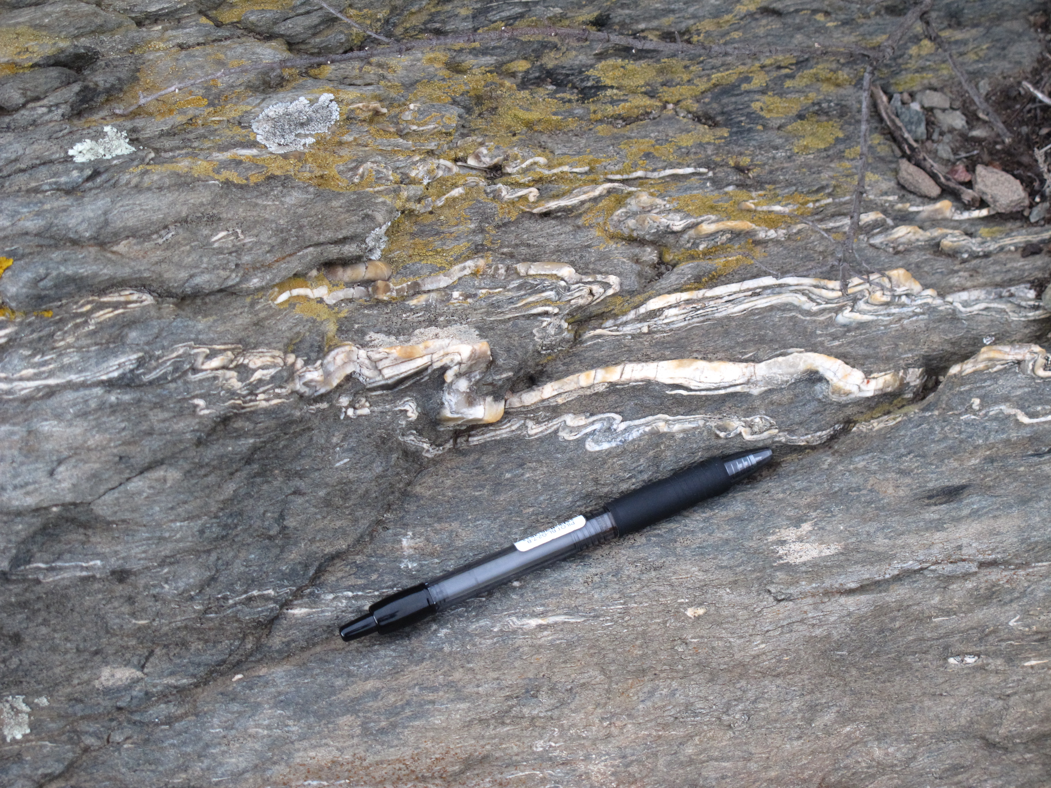 Asymmetric folds developed within a dextral sense shear zone near Cala Portixol, Cap de Creus area, Catalunya. Wavelength varies with quartz mylonite layer thickness. Pen for scale - 14 cm long